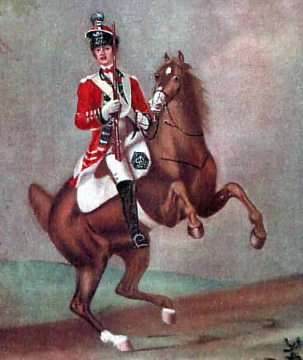 A trooper of the 16th Light Dragoons